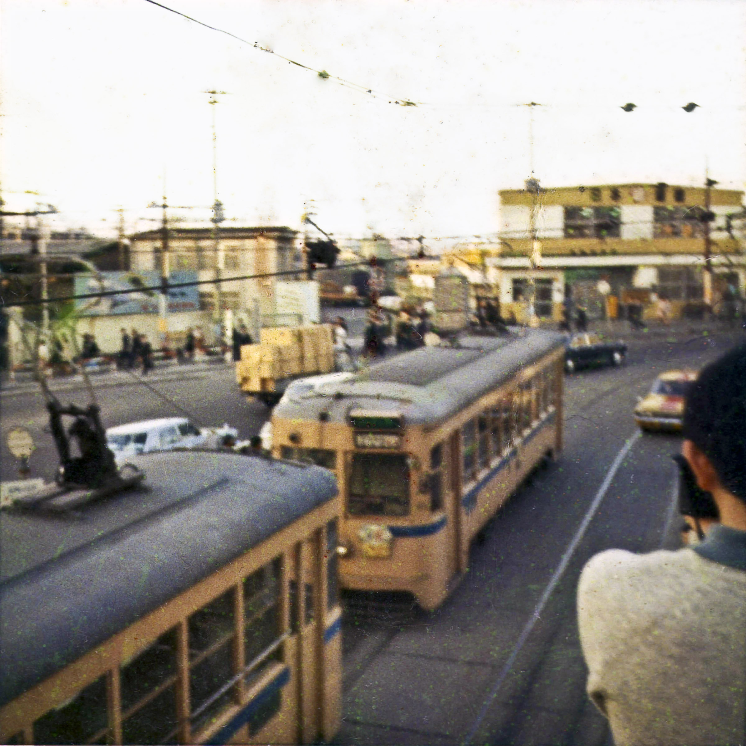 Last day of streetcar service in Yokohama, Sakuragicho, 1972-03-31